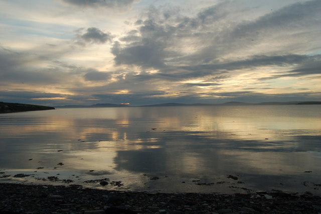 Sunset, towards Hoy